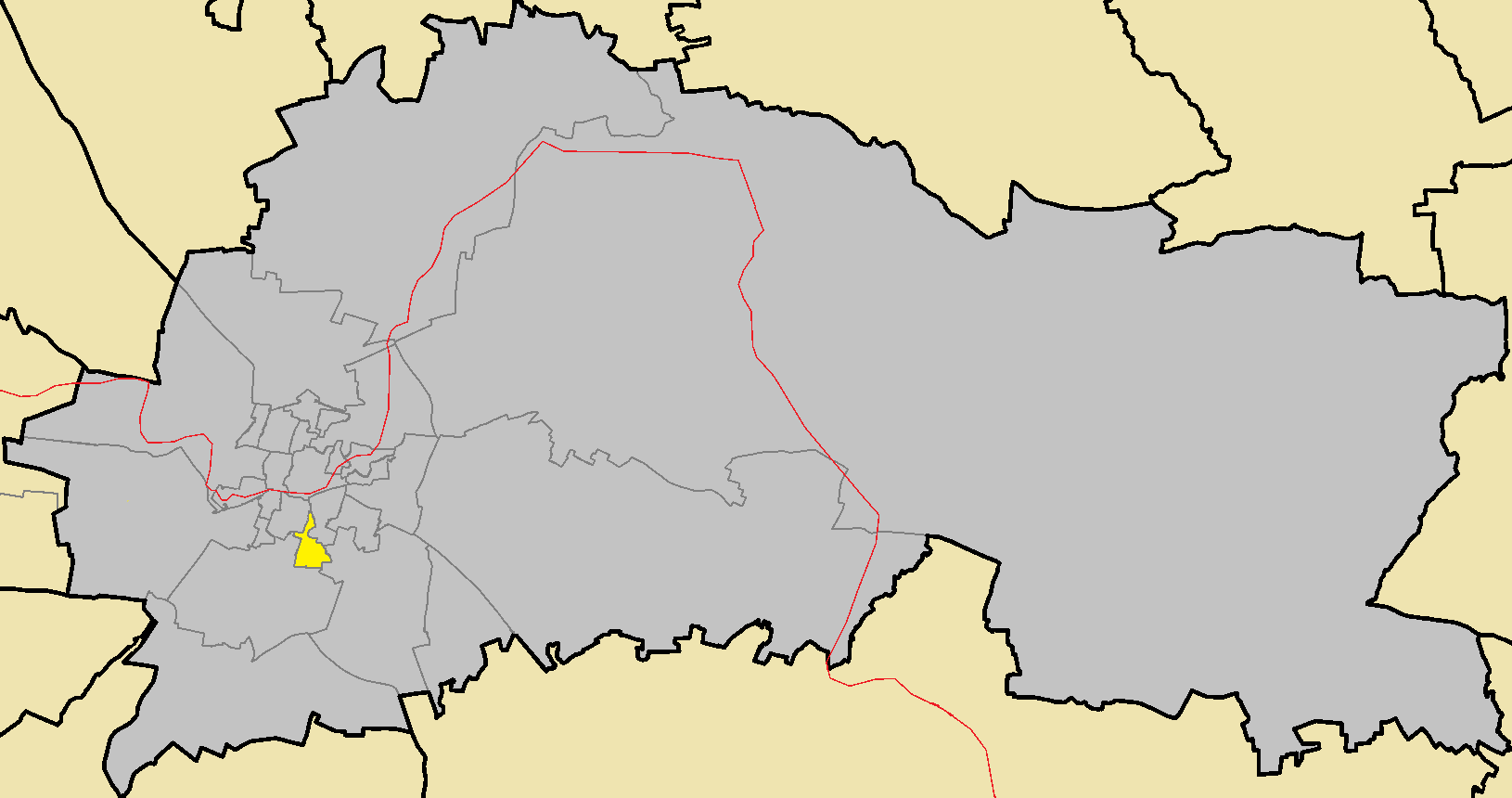 Ayios Savvas in Nicosia Municipality.